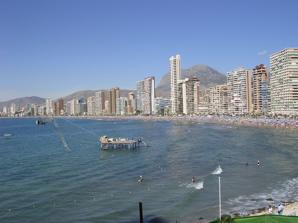 Benidorm, Spain.